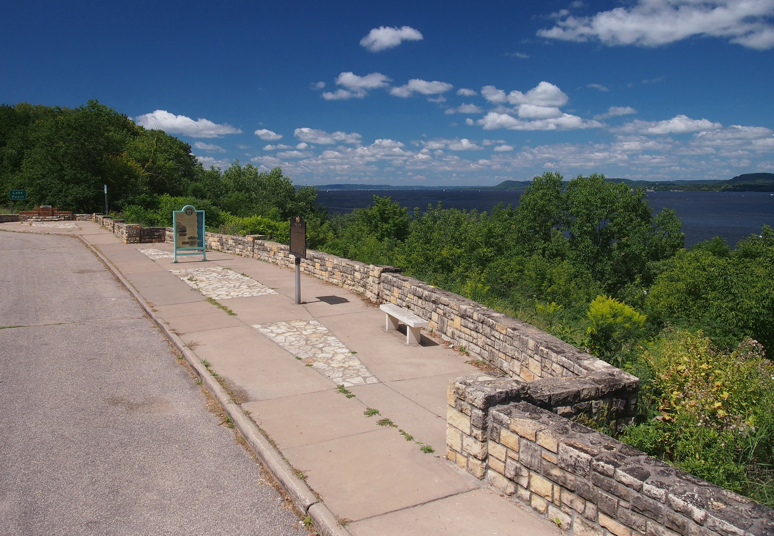 Reads Landing Overlook, U.S. Route 61, Minnesota, USA. View looking northwest from atop my car.